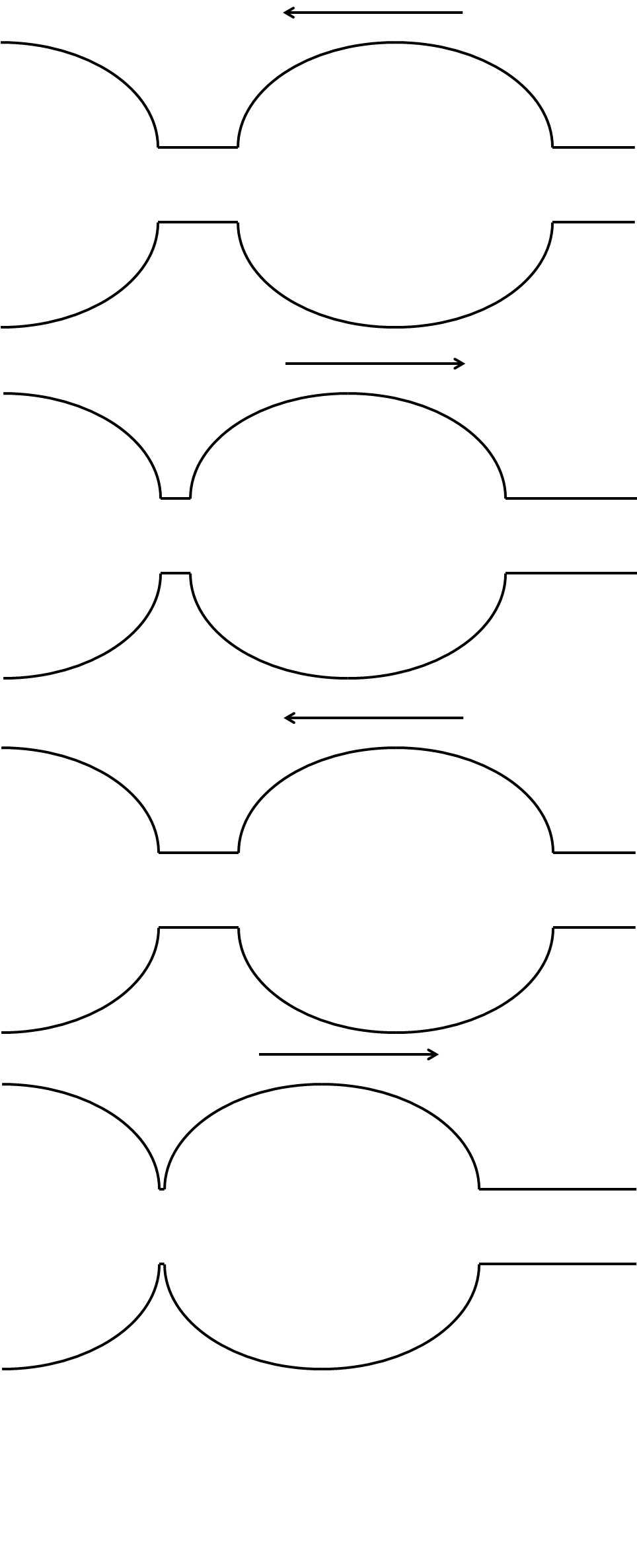 Oscillation phenomenon in bead string structure